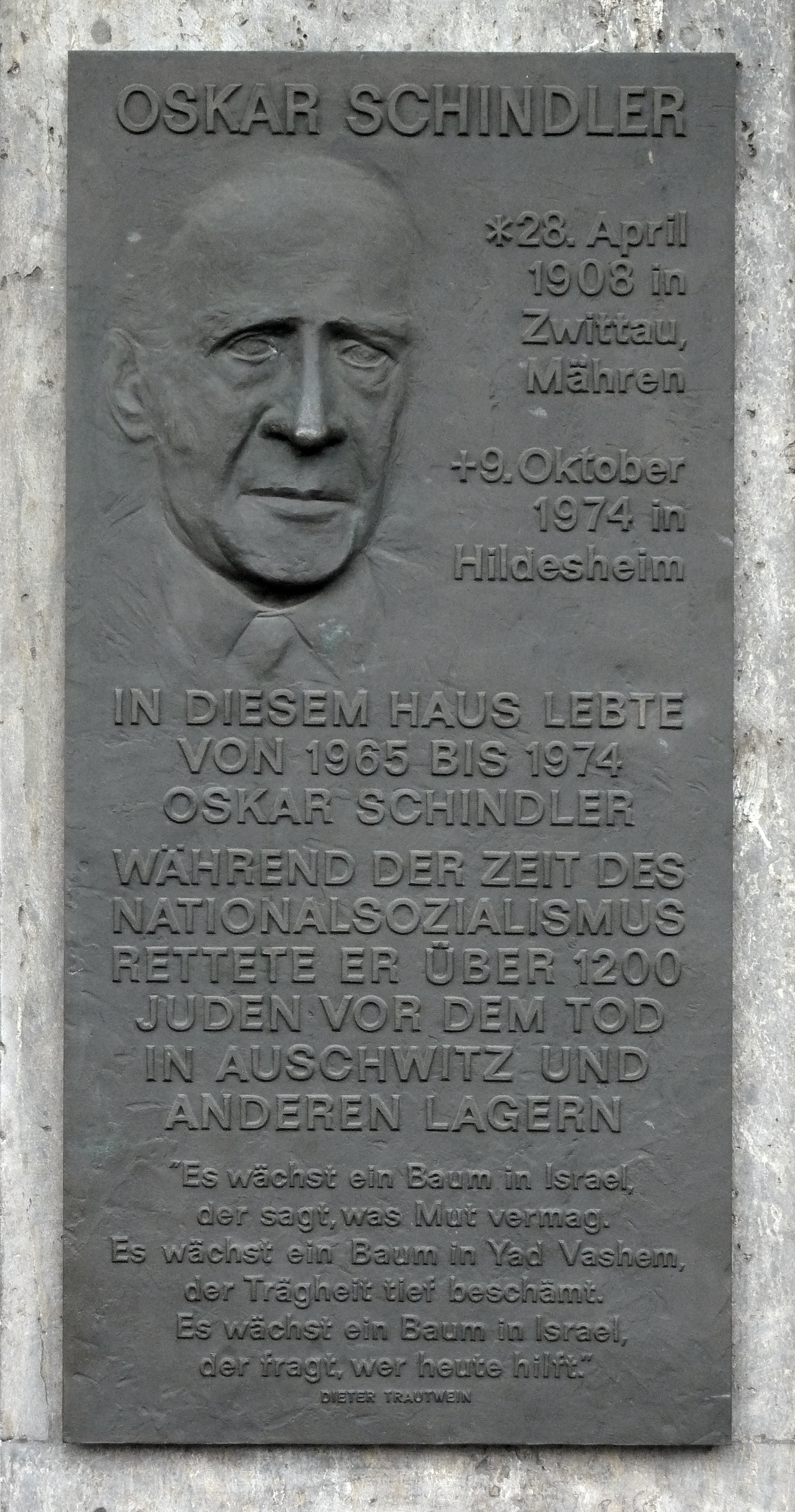 Frankfurt/M., Germany: Plaque commemorating Oskar Schindler; near central railway station